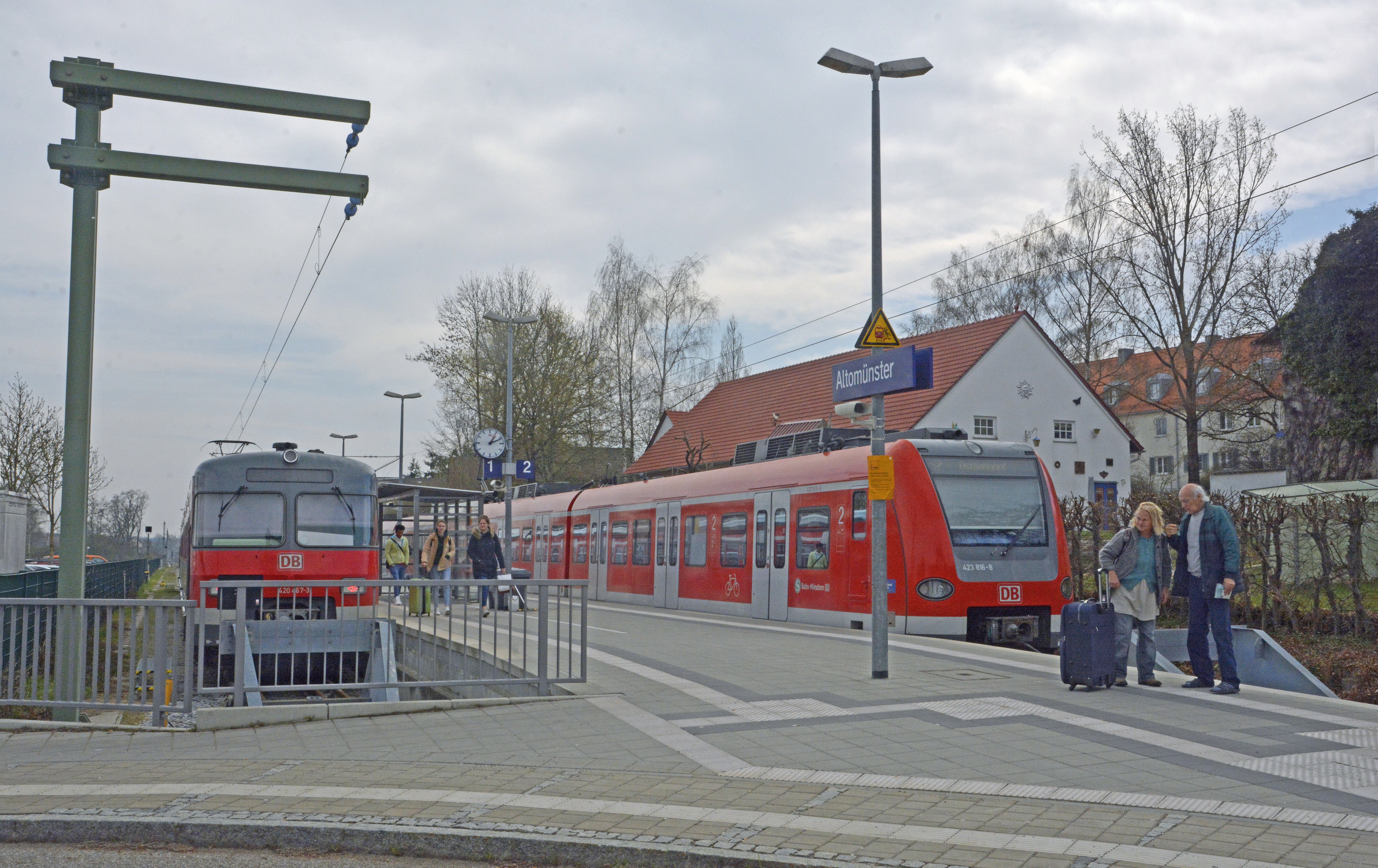 Train Station Altomuenster (District Dachau) (Line S2)